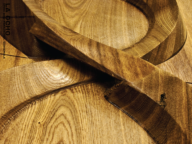 Physical model of the 'La Ocho' figure-8 velodrome track for the CMWC 2010 in Panajachel, Guatemala